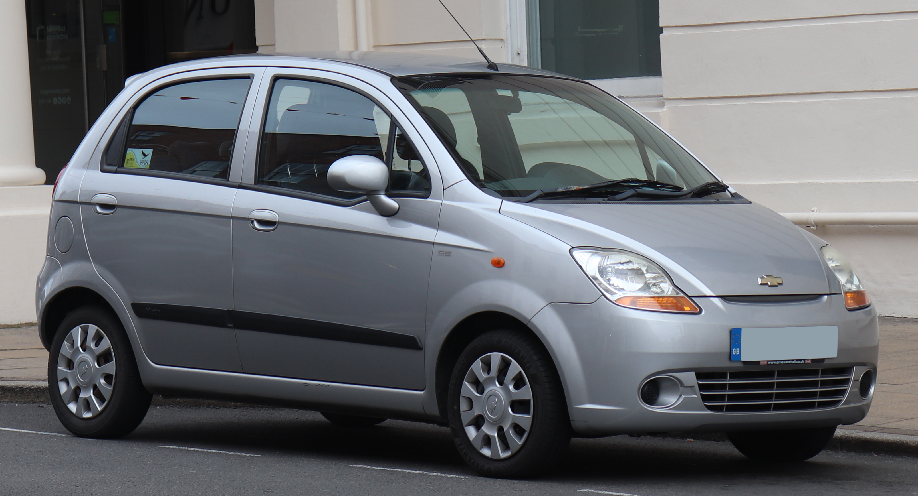 2007 Chevrolet Matiz SE 1.0 Front Taken in Leamington Spa